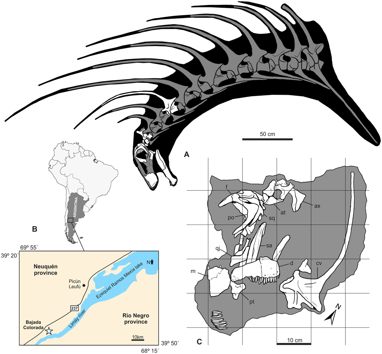 Skeletal reconstruction of Bajadasaurus pronuspinax gen. et sp. nov (MMCh-PV 75), location and quarry map. (A) The neck and skull reconstruction in left lateral view, showing preserved bones in white. The complete anterior cervical vertebra is located tentatively in the fifth position (see Description). The total count of cervical elements, as well as the relative extension of the neural spines, is based in the complete series of the related taxon Amargasaurus, the other dicraeosaurid with extremely elongated bifid neural spines along the neck. (B) A map of the surrounding area of the Ezequiel Ramos Mexía lake (Neuquén Province, Argentina) showing the type locality of Bajadasaurus (Bajada Colorada) indicated by a white star. (C) A quarry map showing the association and location of the remains in the field. at, atlas; ax, axis; cv, cervical vertebra; d, dentary; f, frontal; m, maxilla; po, postorbital; pt, pterygoid; qj, quadratojugal.